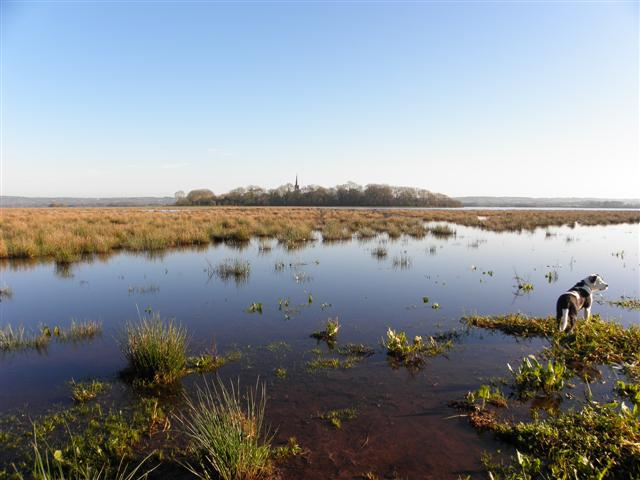 Church Island